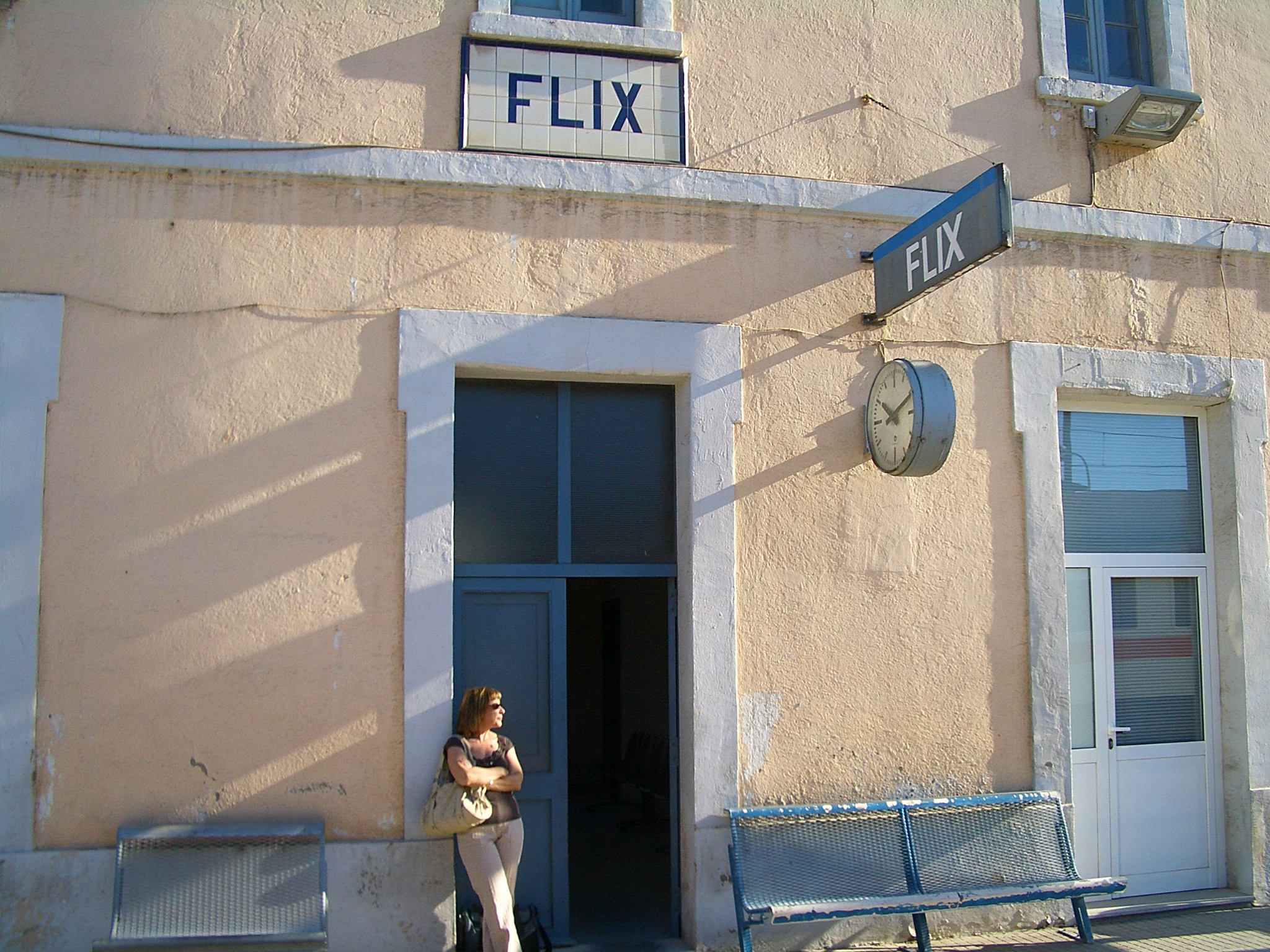 Train station in Flix, Catalonia